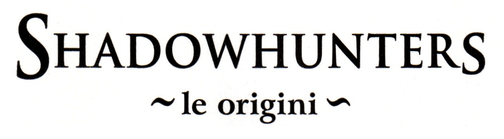 Logo italiano di Shadowhunters - Le origini